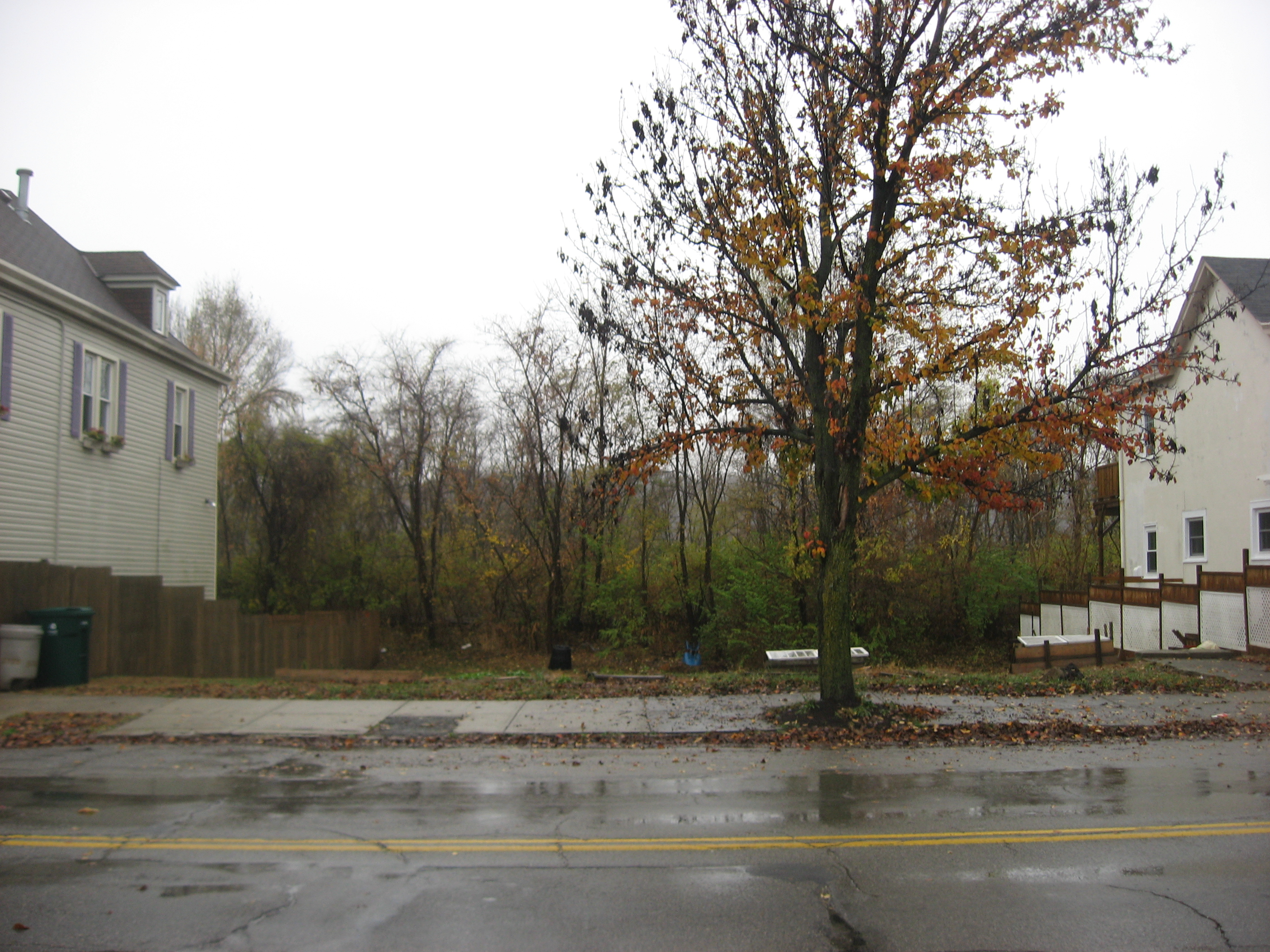 An empty lot at 3719-3725 Eastern Avenue in the Columbia-Tusculum neighborhood of Cincinnati, Ohio, United States. This lot was formerly the location of the Hoodin Building; built in 1881, it is listed on the National Register of Historic Places despite having been destroyed.